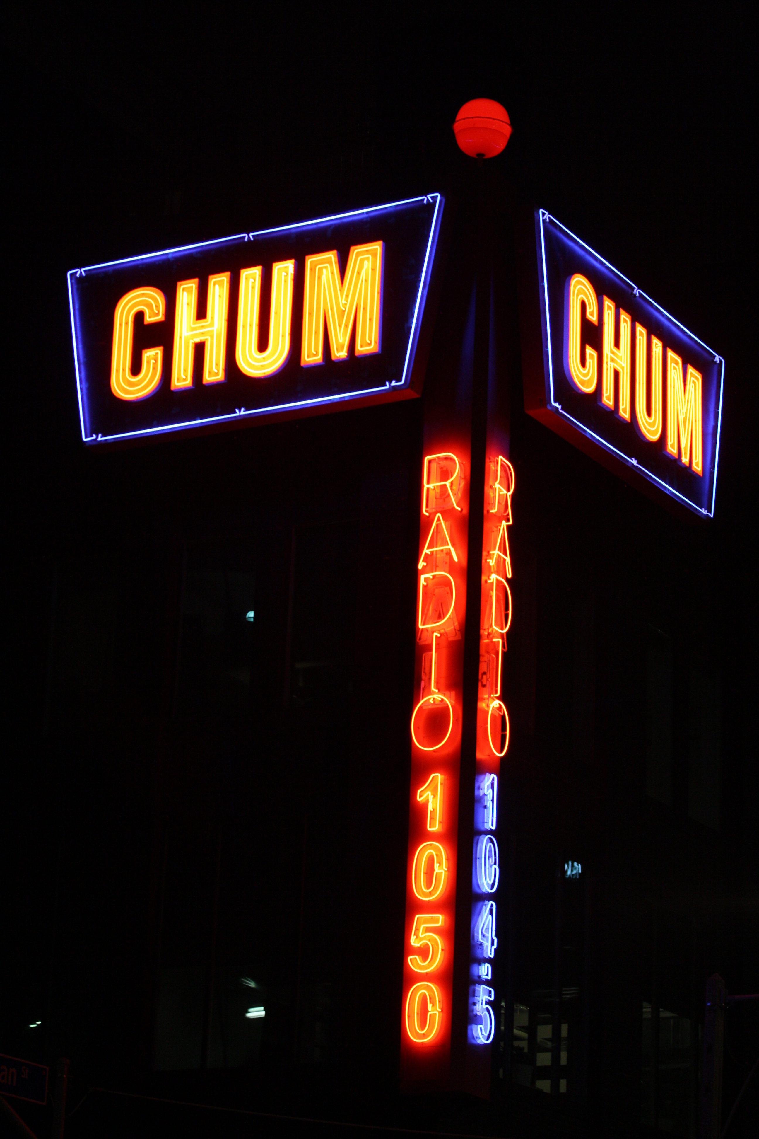 Neon sign for radio station 1050 CHUM in Toronto, Ontario, Canada. Originally installed at 1315 Yonge Street in 1959, the sign was moved when CHUM's corporate owners moved the radio station downtown and sold its former building. The landmark neon sign was restored and reinstalled at the station's new home, a building at 250 Richmond Street West at the rear of 299 Queen Street West.